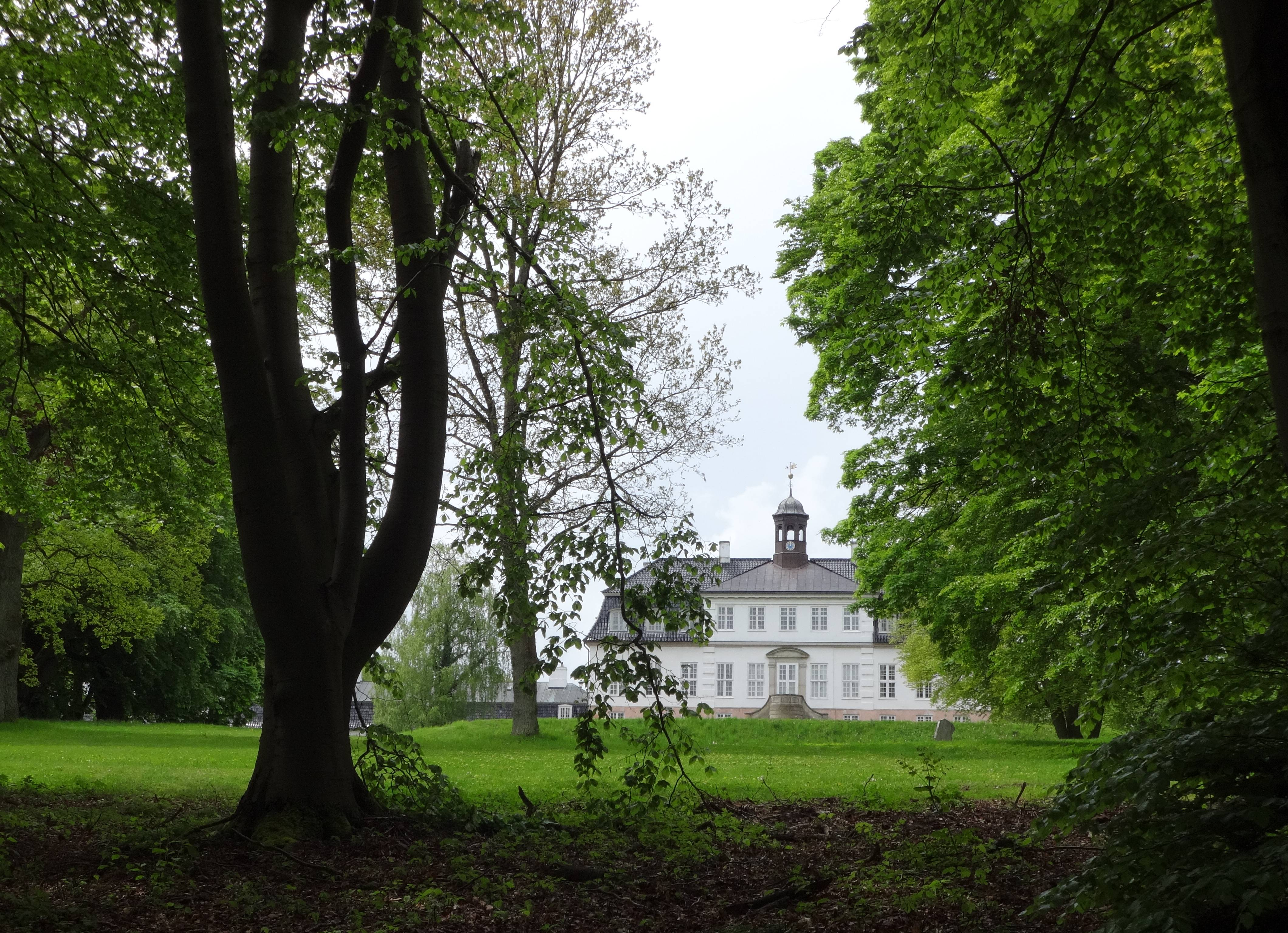 Sorgenfri Palace